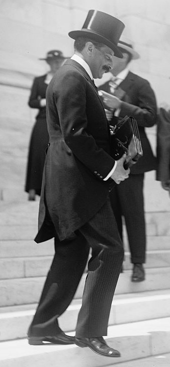 German-American banker Paul Warburg (1868-1932) at the 1st Pan-American Financial Conference, Washington D.C., May, 1915, wearing his characteristic Black Hat.